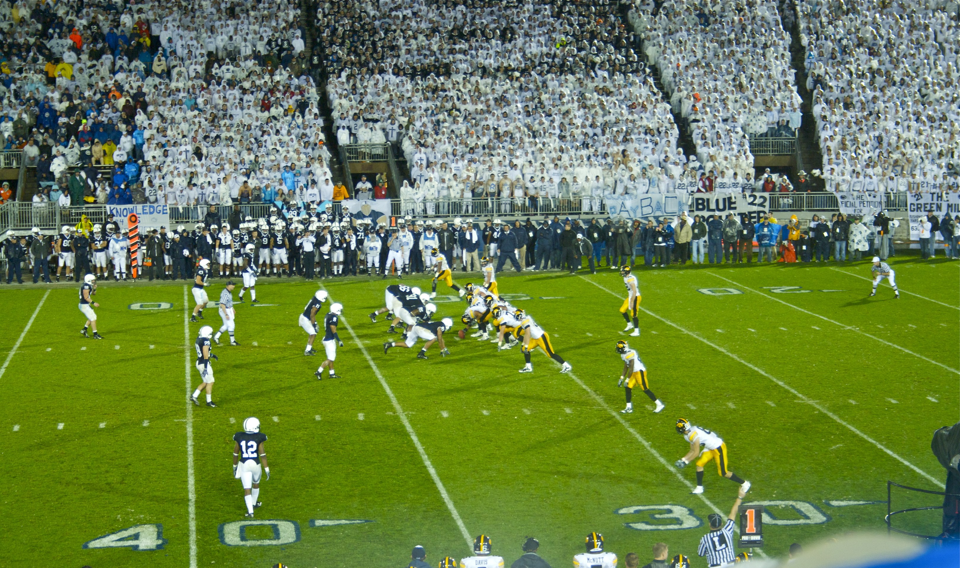 I only took a few photos of the actual game, due to the torrential rain and low temperatures, but I did snap a few photos in the 3rd quarter.